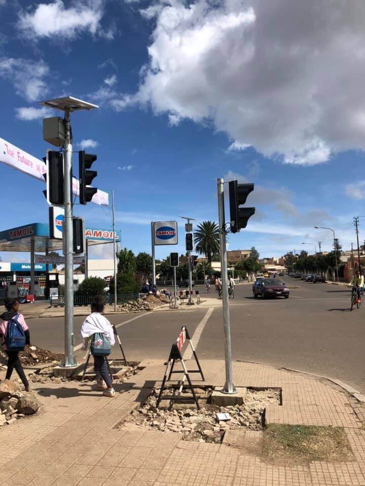 Solar traffic light Asmara, Eritrea